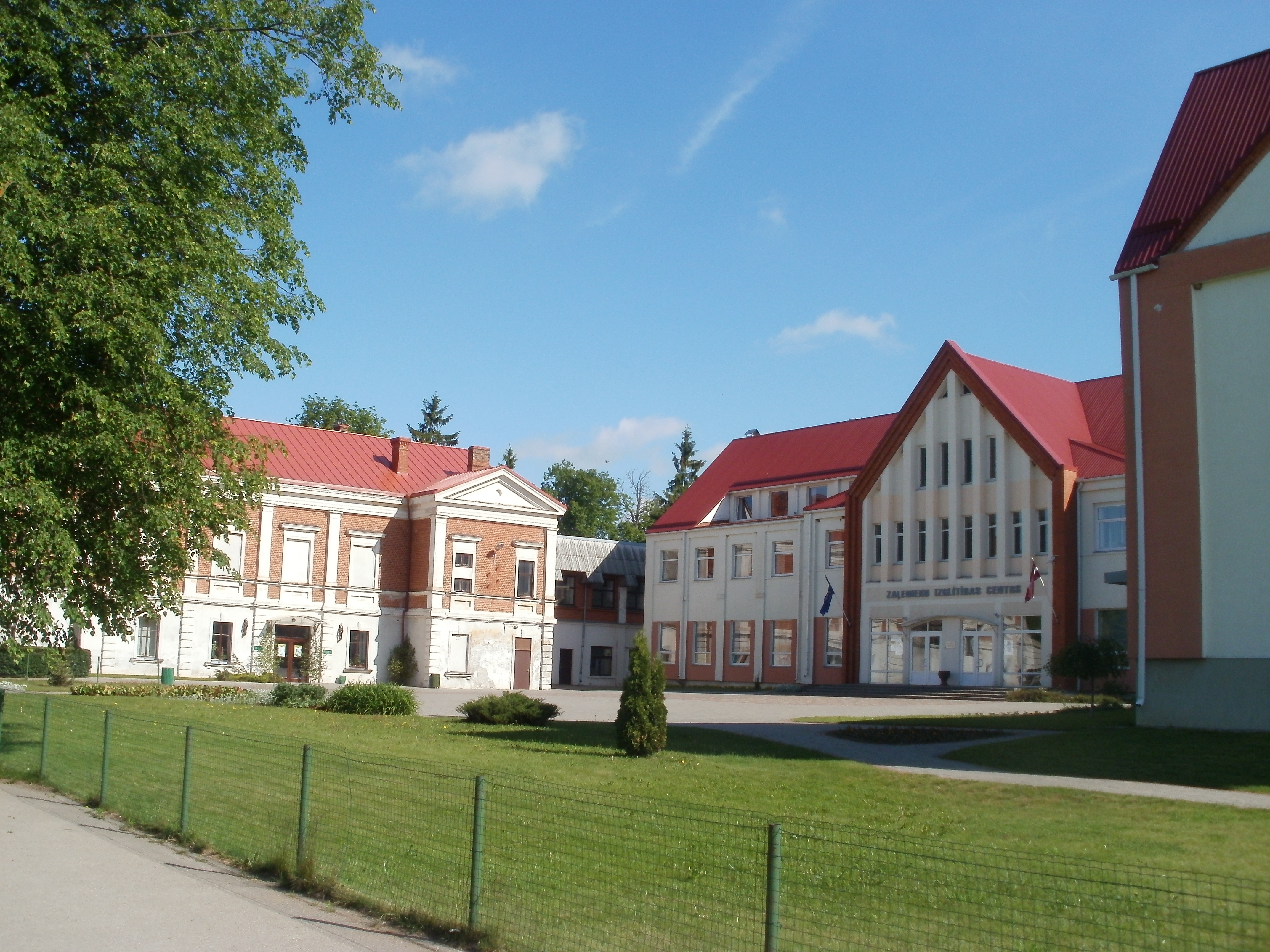 Educational and cultural centre of Zaļenieki